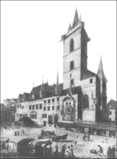 Prague Astronomical Clock, History 1808, L. Kohl